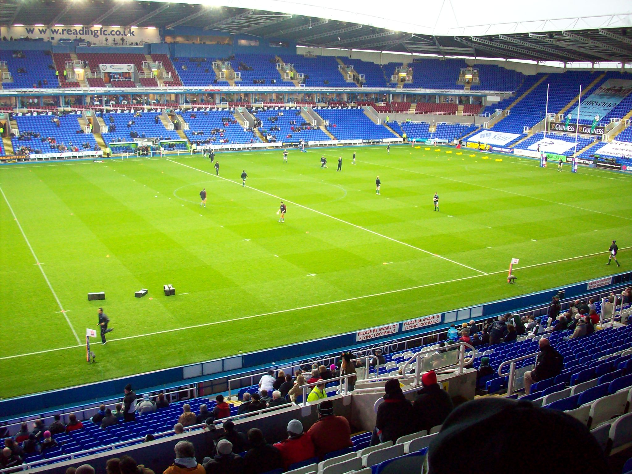 Sunday 2nd November 2008, 3pm kick off.